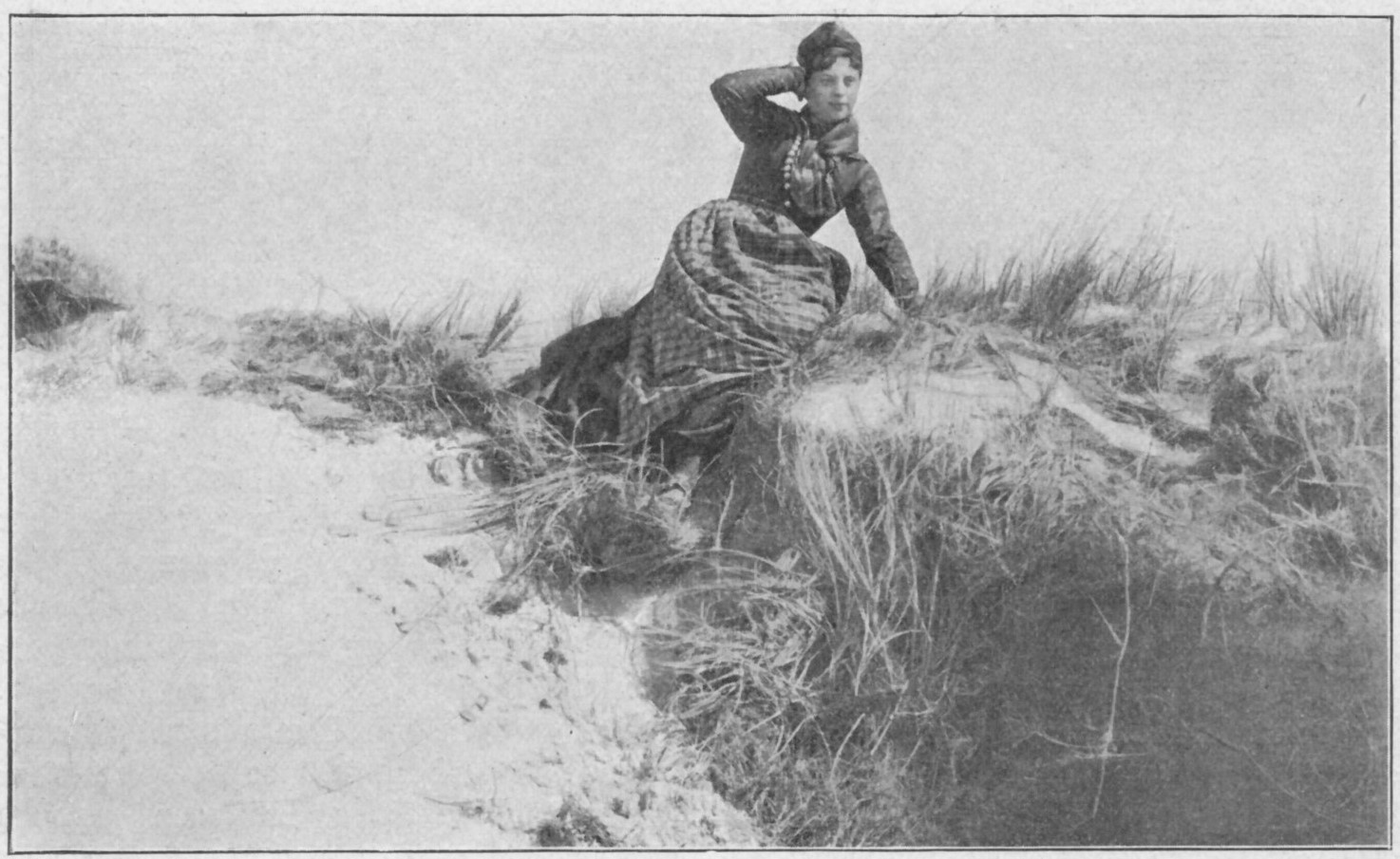 Girl from Rømø island, Denmark, wearing a traditional costume